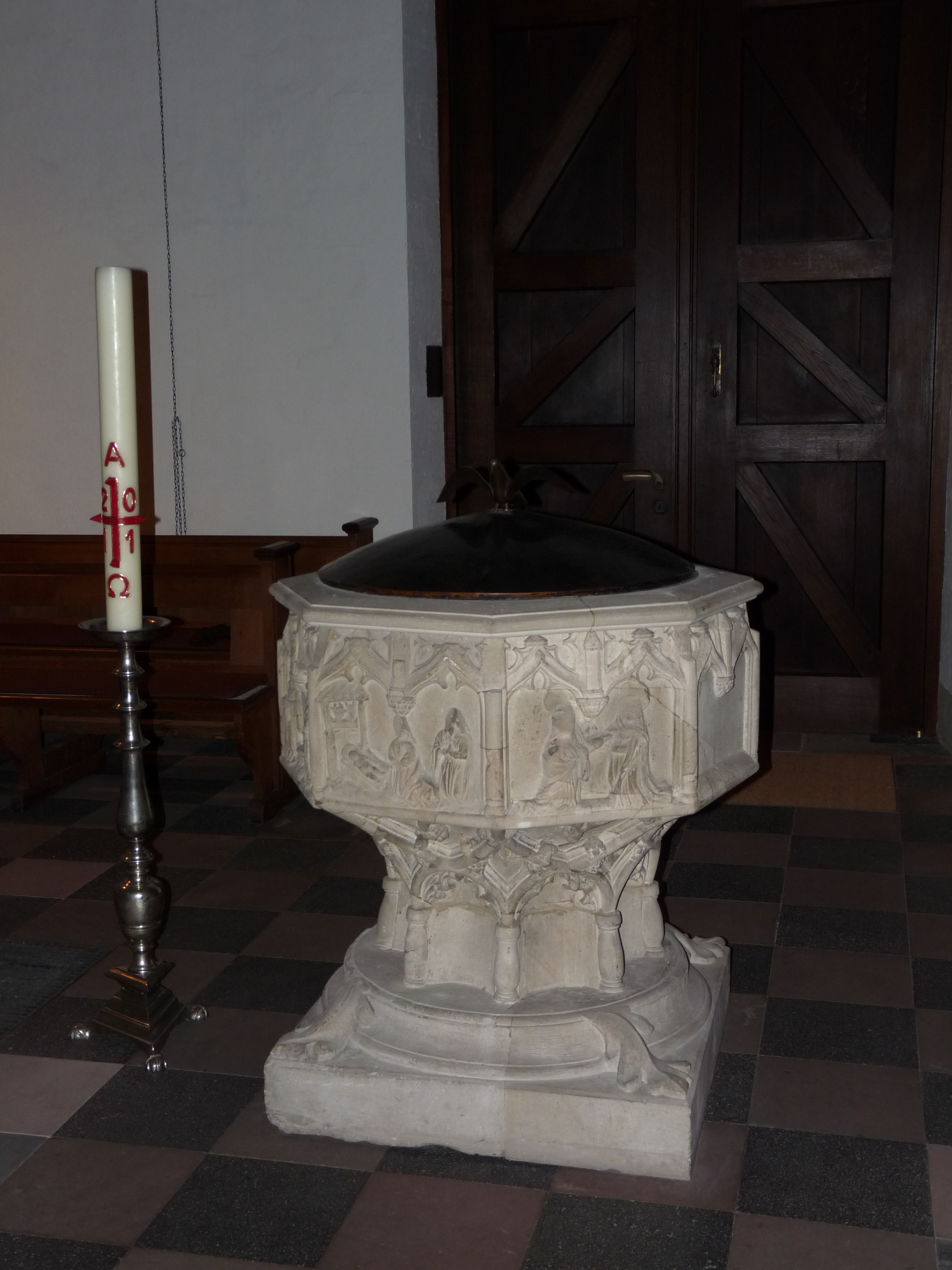 Baptismal font in St. Ludgeri in Münster (Germany)